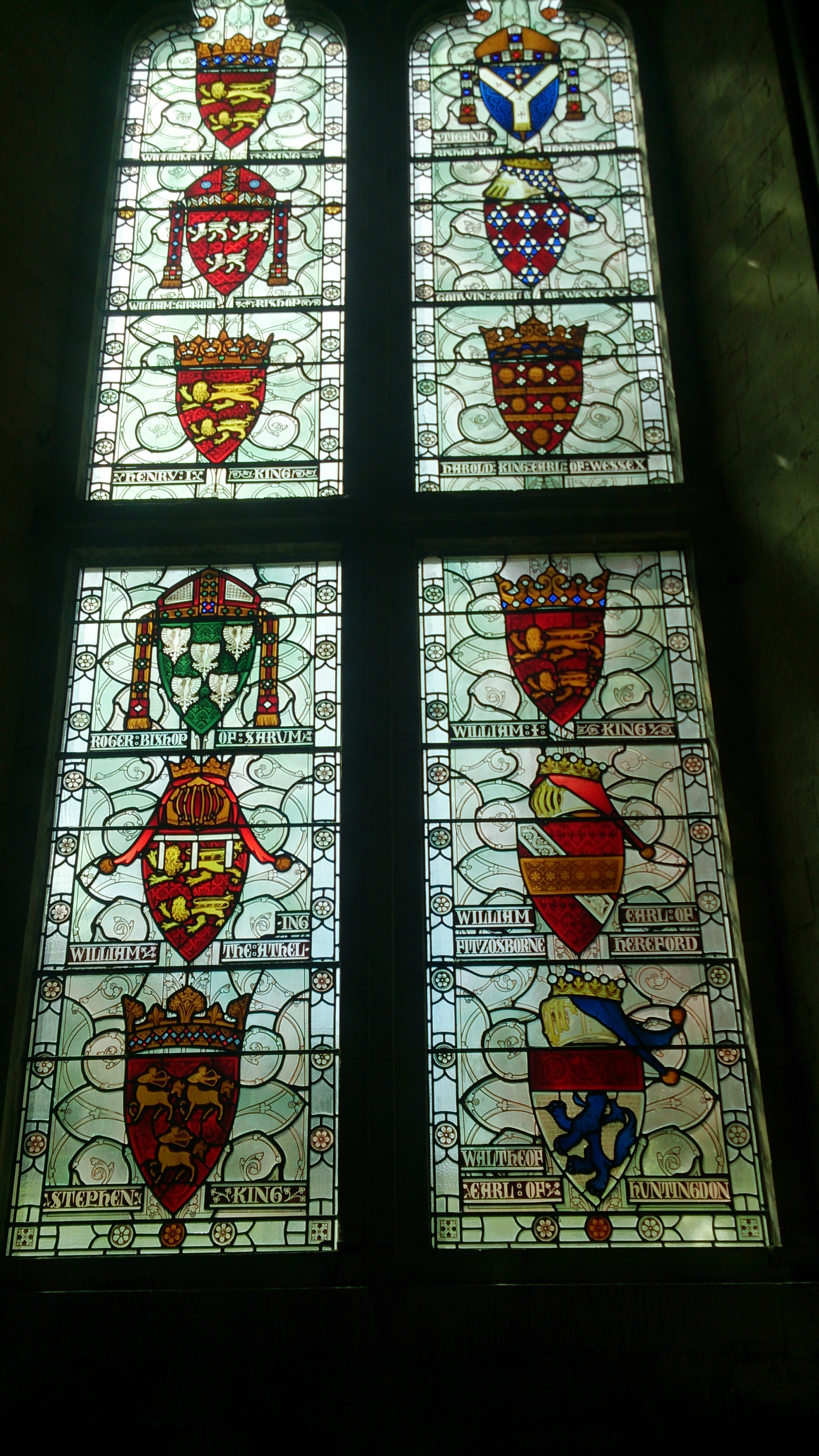 The 2nd window in Winchester Great Hall, representing William II of England: Gules two leopards Or Stigand: Azure a stole argent per pall with crosses sable fringed Or over a cross flory argent pierced gules on a staff Or William Giffard: Gules three lions passant argent langued azure Godwin, Earl of Wessex: Lozengy gules and vair Henry I of England: Gules two leopards Or Harold Godwinson: Gules two bars Or between 10 crosses floretty (4-3-3) argent and 6 bear's heads afronty Or Roger of Salisbury: Vert five eagles argent William the Conqueror: Gules two leopards Or William Adelin: Gules two leopards Or, labelled argent William FitzOsbern, 1st Earl of Hereford: Gules a bend argent, overall a bar Or Stephen, King of England: Gules three centaurs regardant Or with bows nooked of the same Waltheof, Earl of Huntingdon and Northumbria: Argent a lion azure, with a chief gules